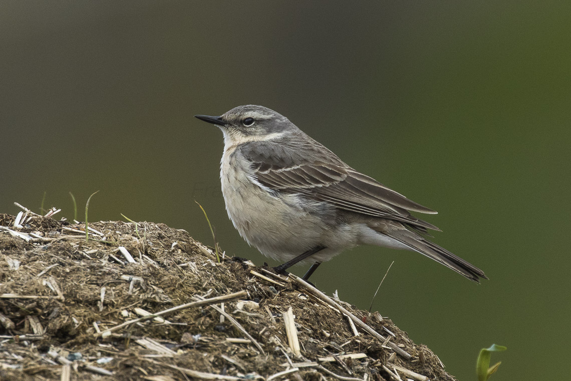 Water Pipit - Aosta Valley - Italy_MG_2921